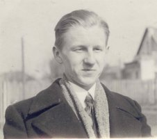 Jan Romańczyk "Łata"